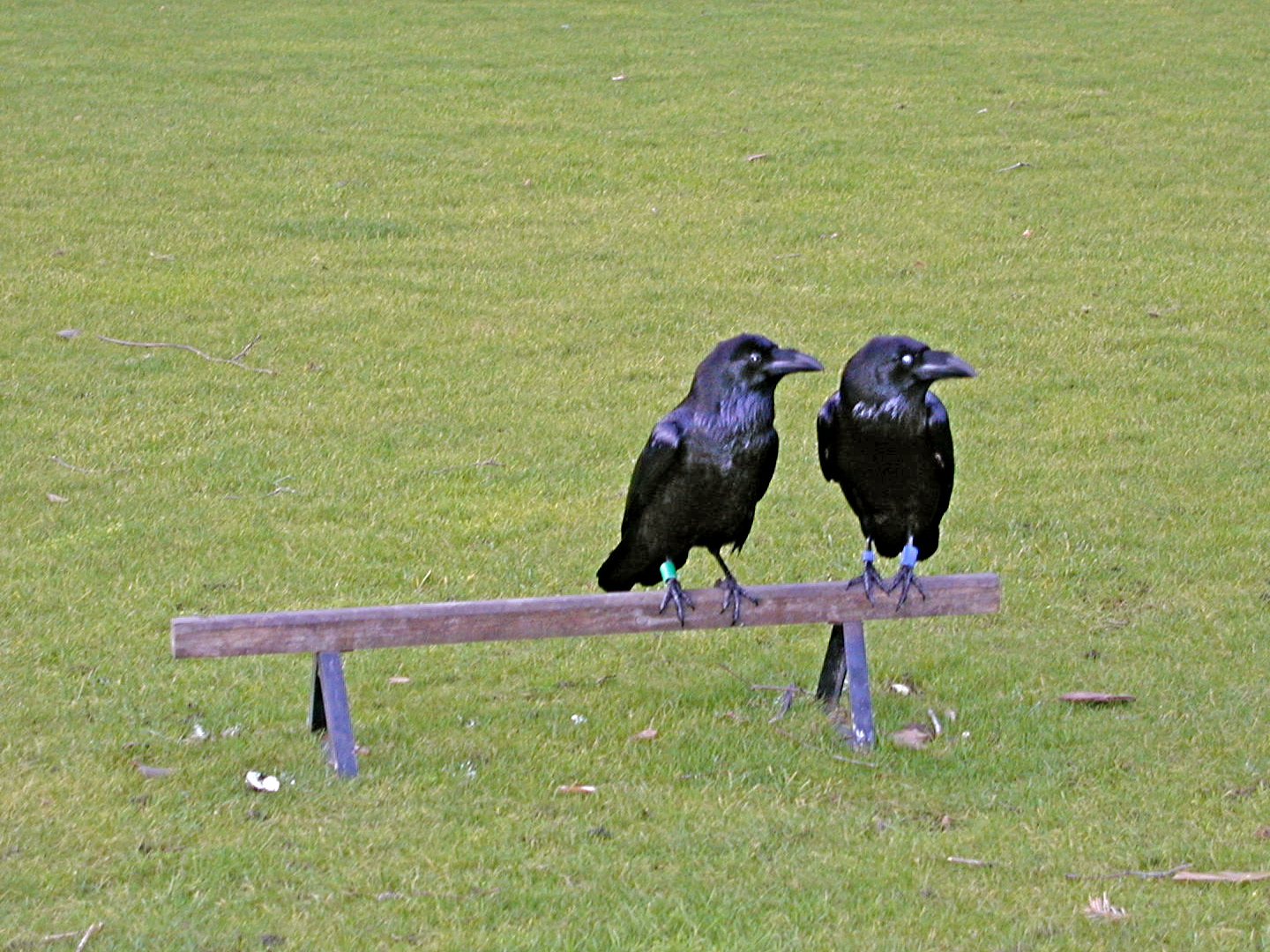 Common Ravens on the grounds of the Tower of London.